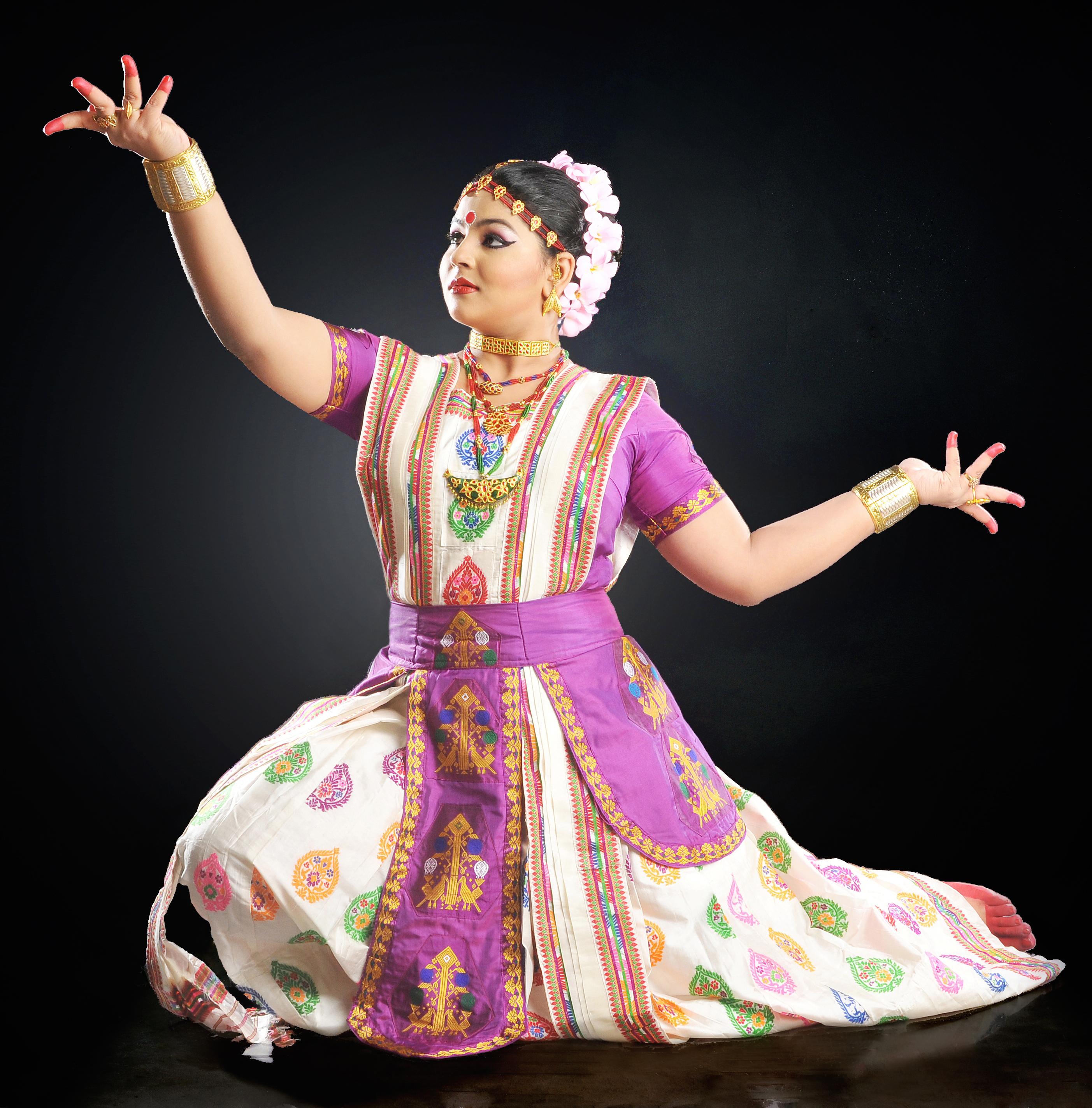 Sattriya Dance has its origin in the "Sattras"establish by Mahapurush Srimanta Sankardev in the 15th and the 16th century.The Sattras were establish for the propagation of Vaishnavism and later they became the religious,cultural and social hub for the people of Assam.